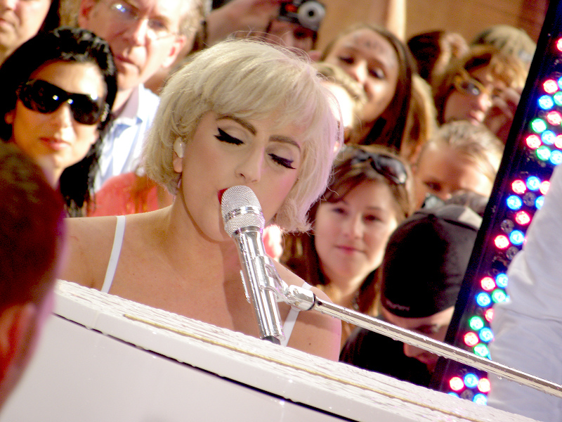 Lady Gaga performing "You and I" on NBC's Today.